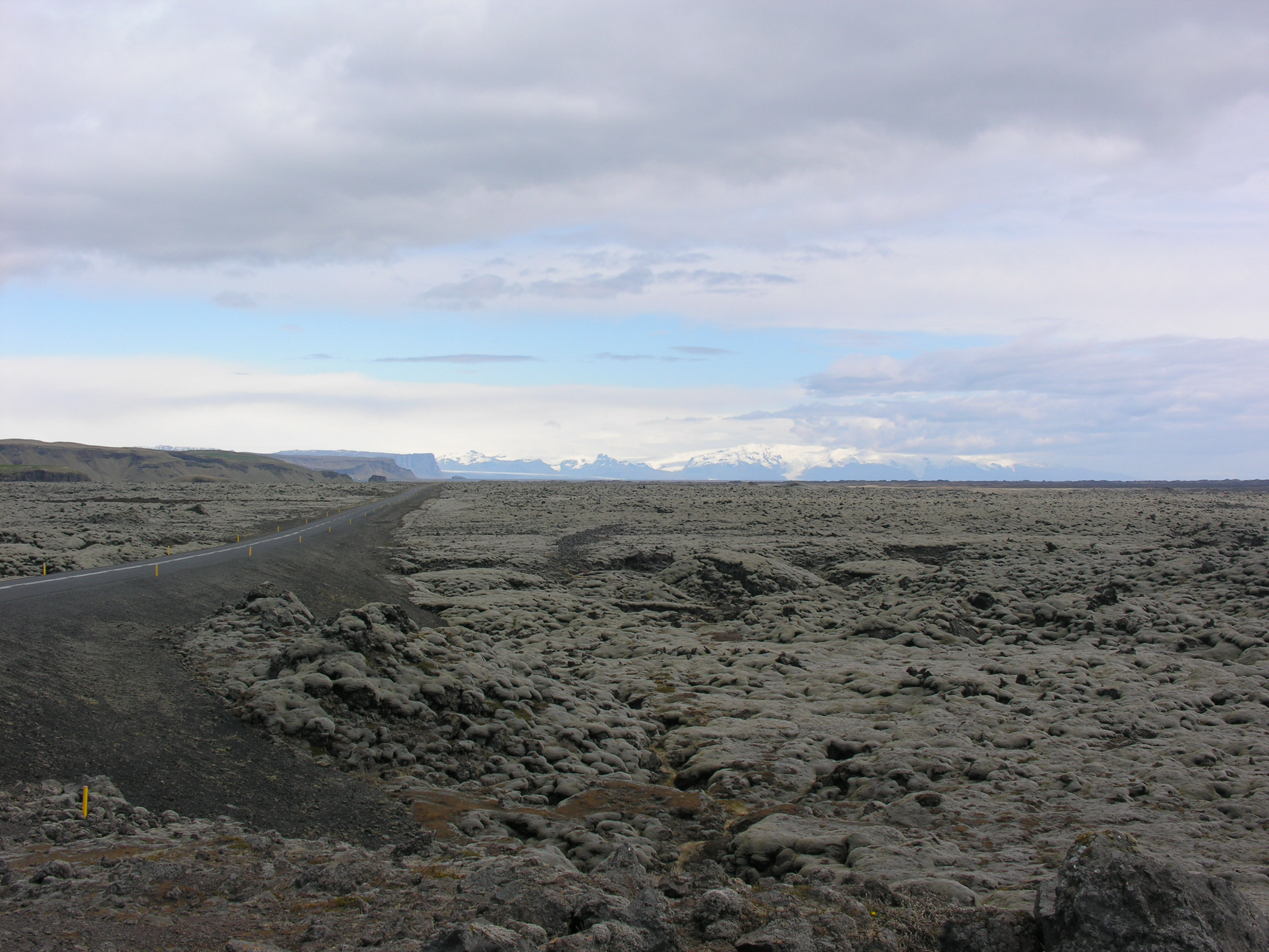 Iceland